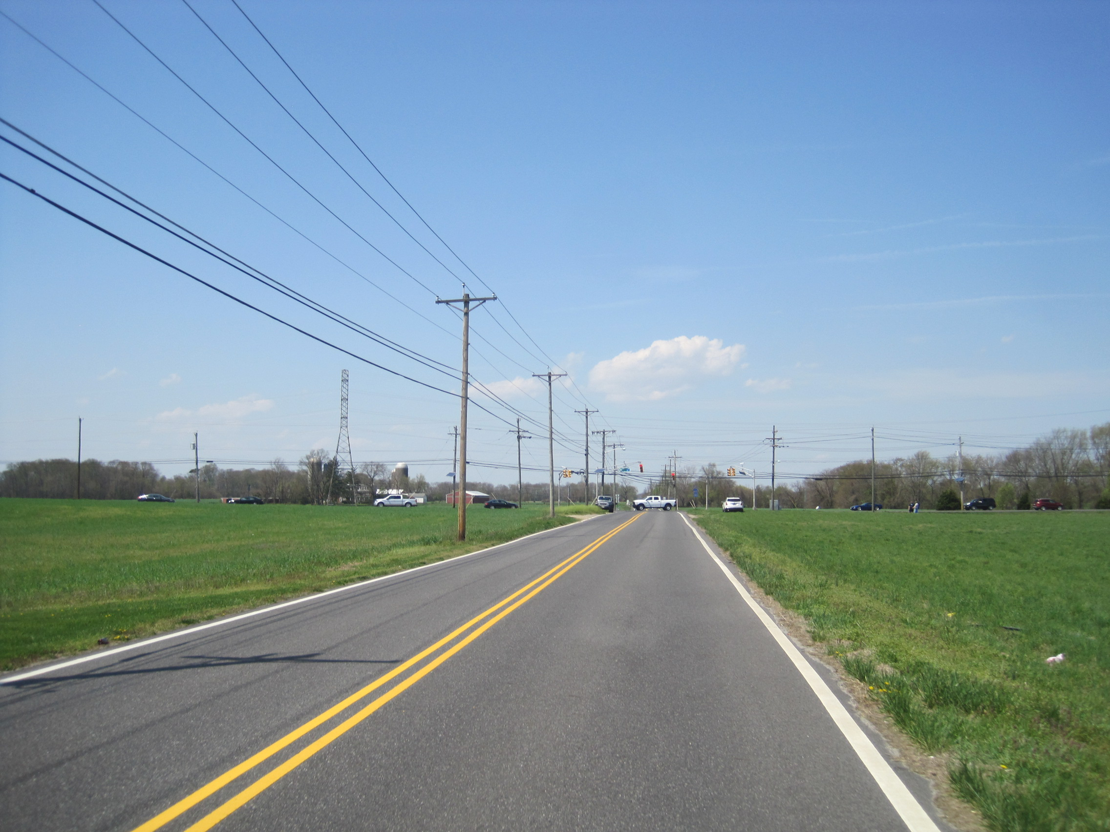 Photo showing Fostertown, New Jersey, an unincorporated community within Lumberton Township. Photo taken along westbound Fostertown Road approaching Main Street (County Route 541) and (CR 612).